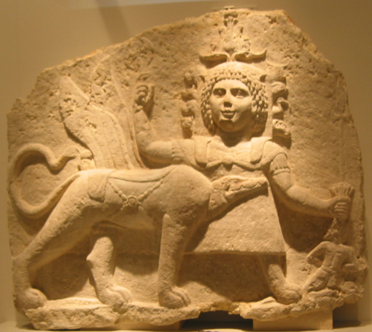 Object in the Ägyptisches Museum Berlin (Egyptian museum, building of the New Museum), Berlin.